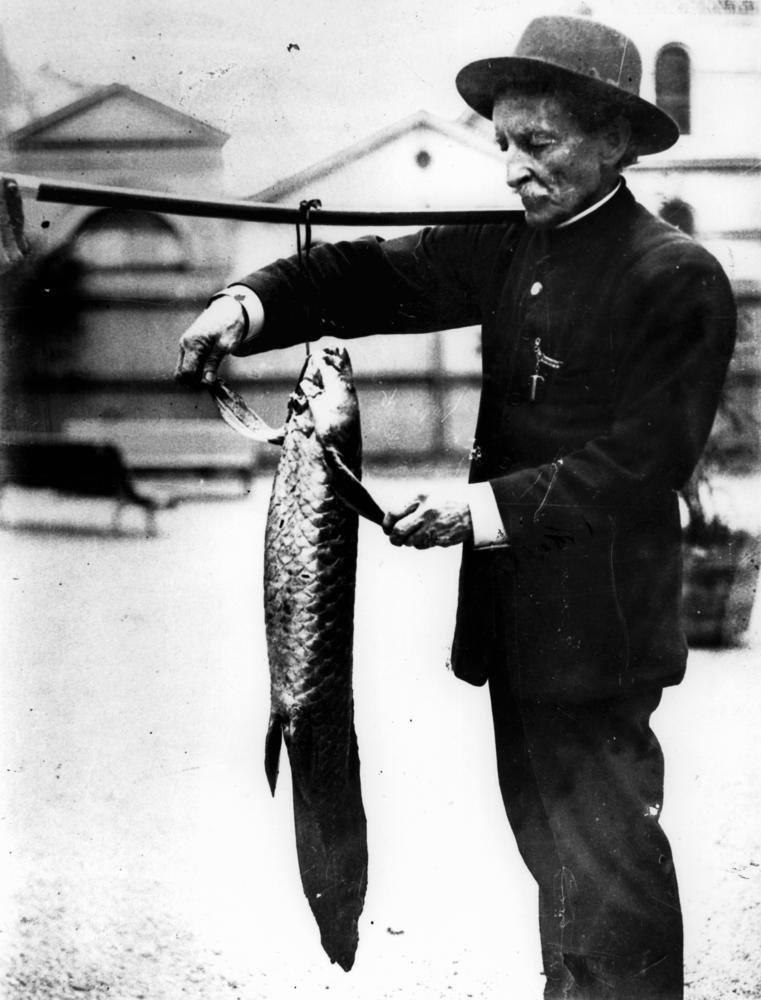 Archibald Meston displaying a lung fish.